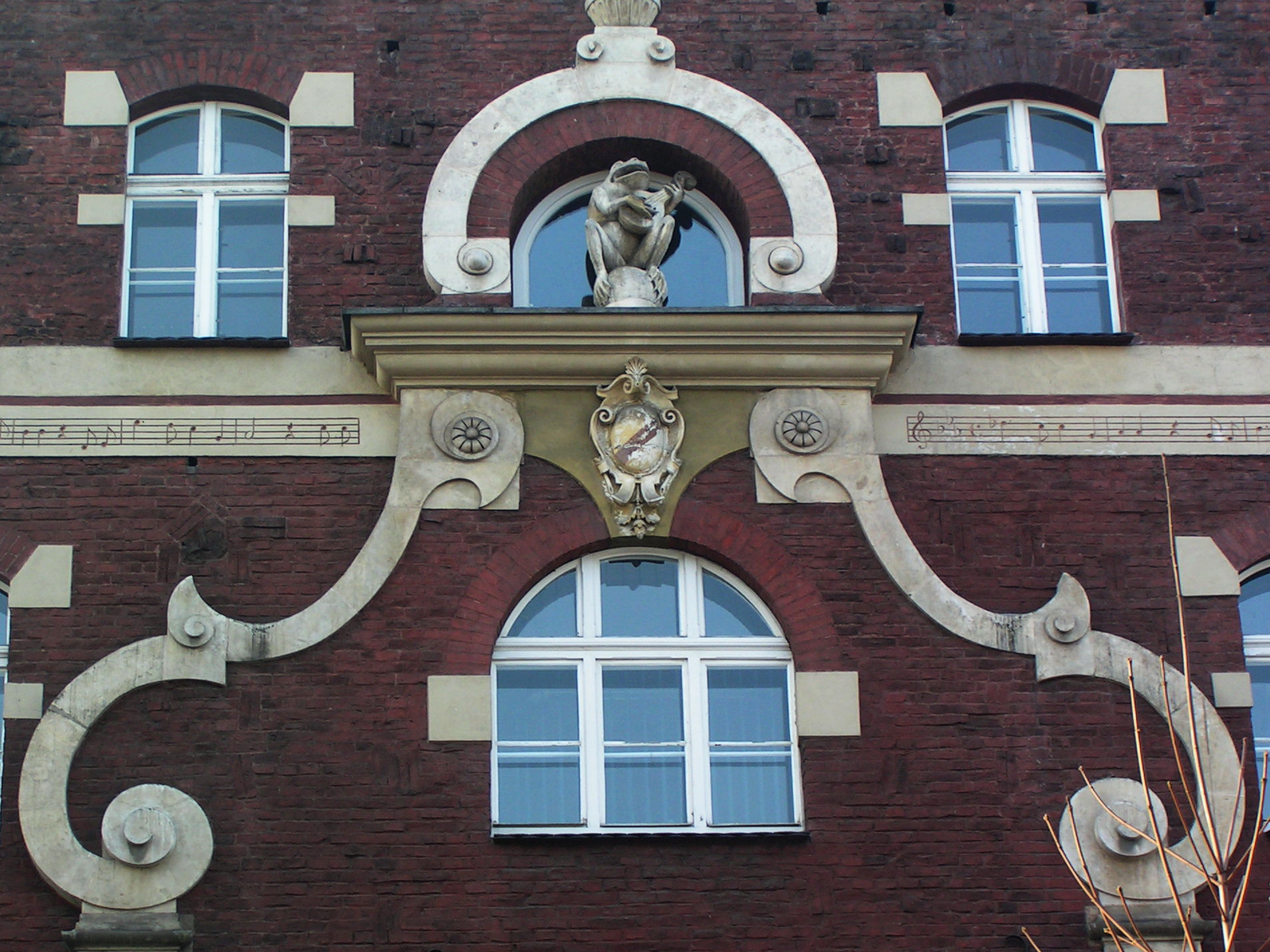 "Pod śpiewającą żabą" ("Under singing frog") house by architect Teodor Talowski, 1889-90, Retoryka 1-2 street, Kraków, Poland